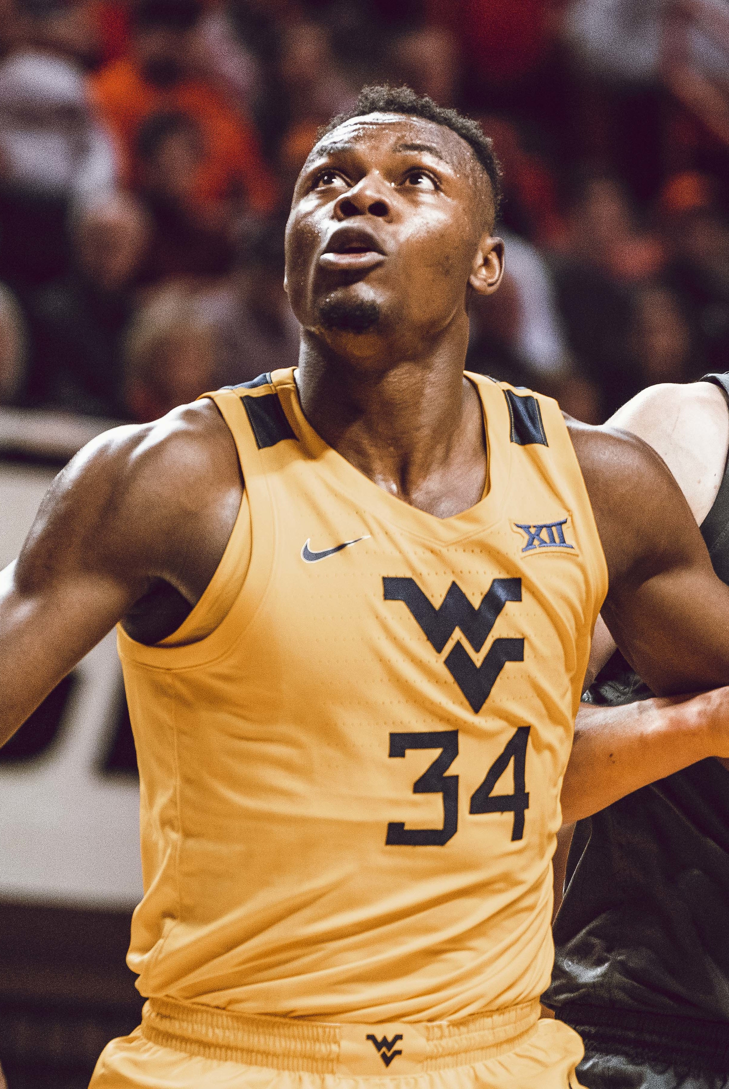 Image Taken At Oklahoma State Cowboys vs West Virginia Mountaineers Basketball Game, Monday, January 6, 2020, Gallagher-Iba Arena, Oklahoma State University, Stillwater, OK. Courtney Bay/OSU Athletics